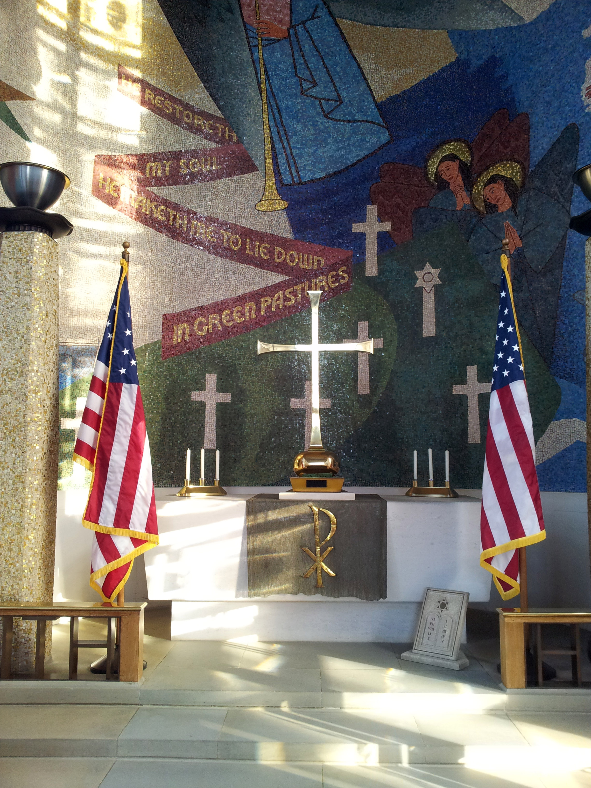 Cambridge American Cemetery and Memorial